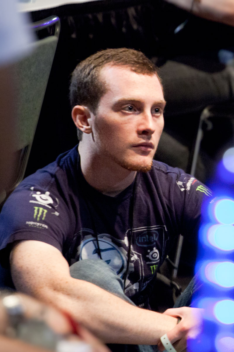 The Starcraft II Pro gamer Greg "IdrA" Fields at MLG Anaheim 2011